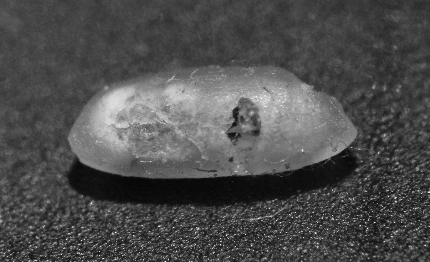 A grain of rice with Sitophilus oryzae